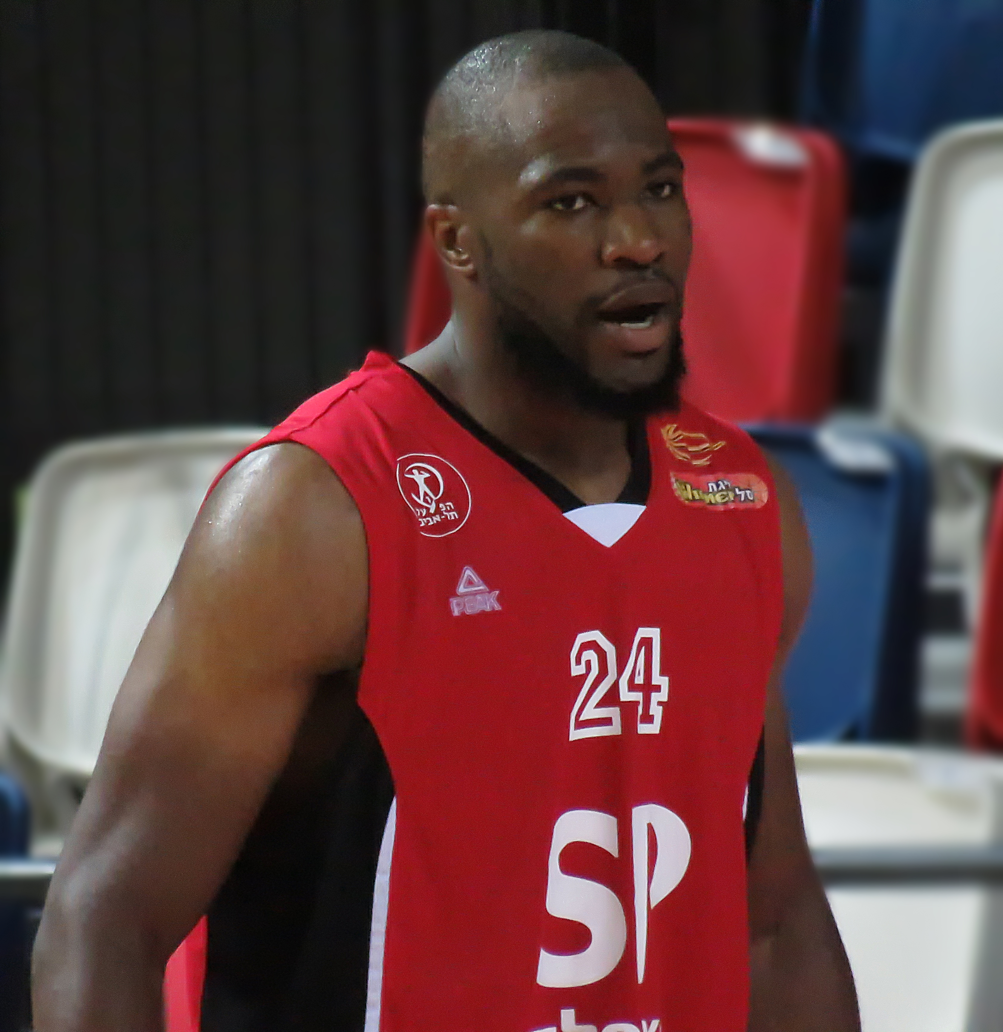 Hapoel Tel Aviv vs. Hapoel Eilat - Pre-season friendly, Septeber 11, 2015